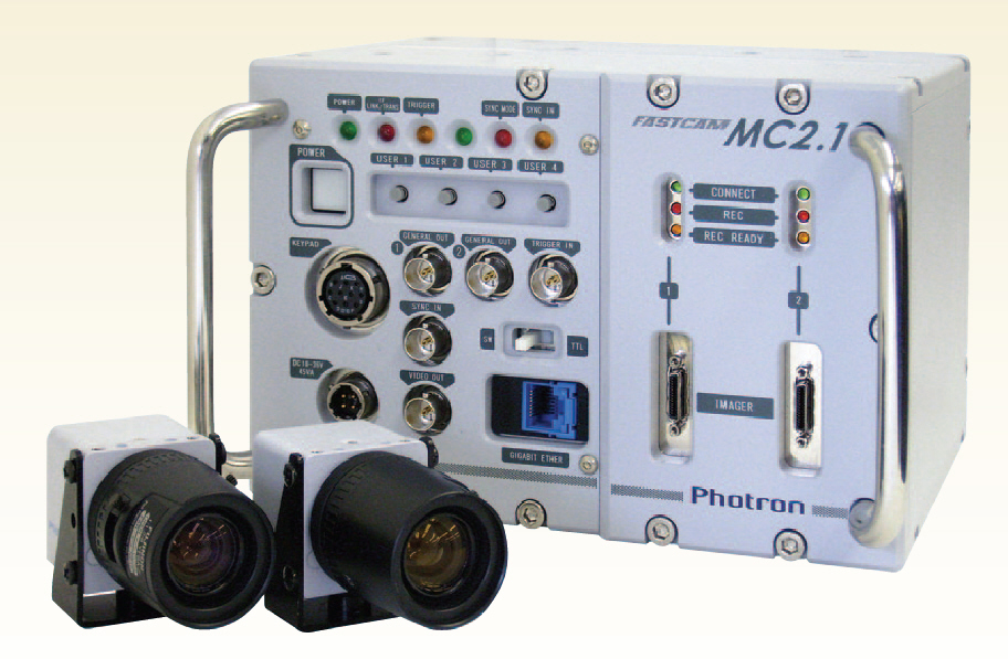 Photron FASTCAM MC2